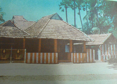 I took this Photo graph. This is Thamaraikulam Pathi, which isone among the Primary Pathis.